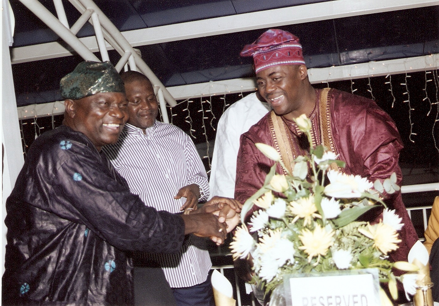 Femi Fani-Kayode with the governor of his state Prince Olagunsoye Oyinlola at a reception in 2007